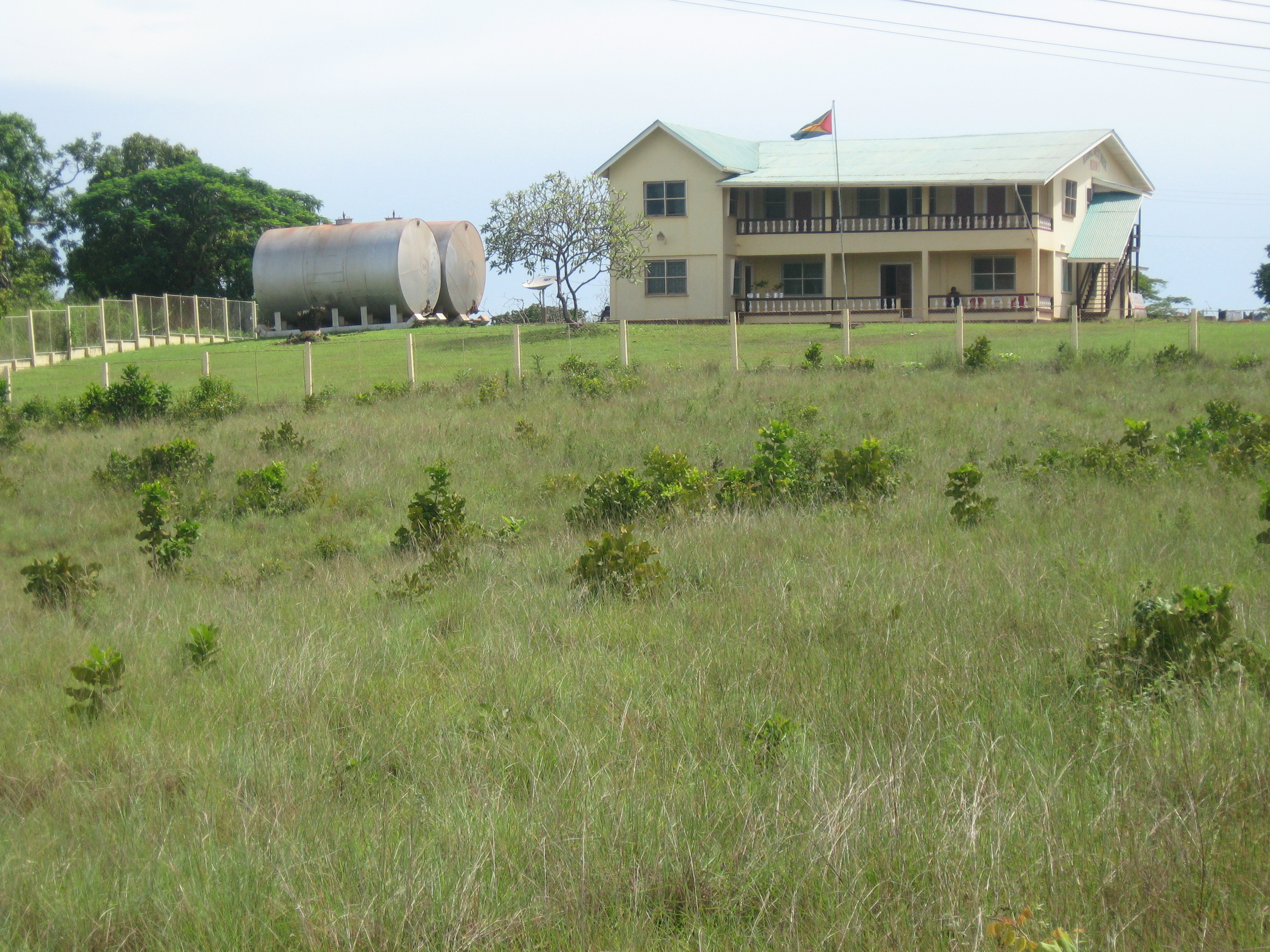 A building in a city of Lethem, Guyana